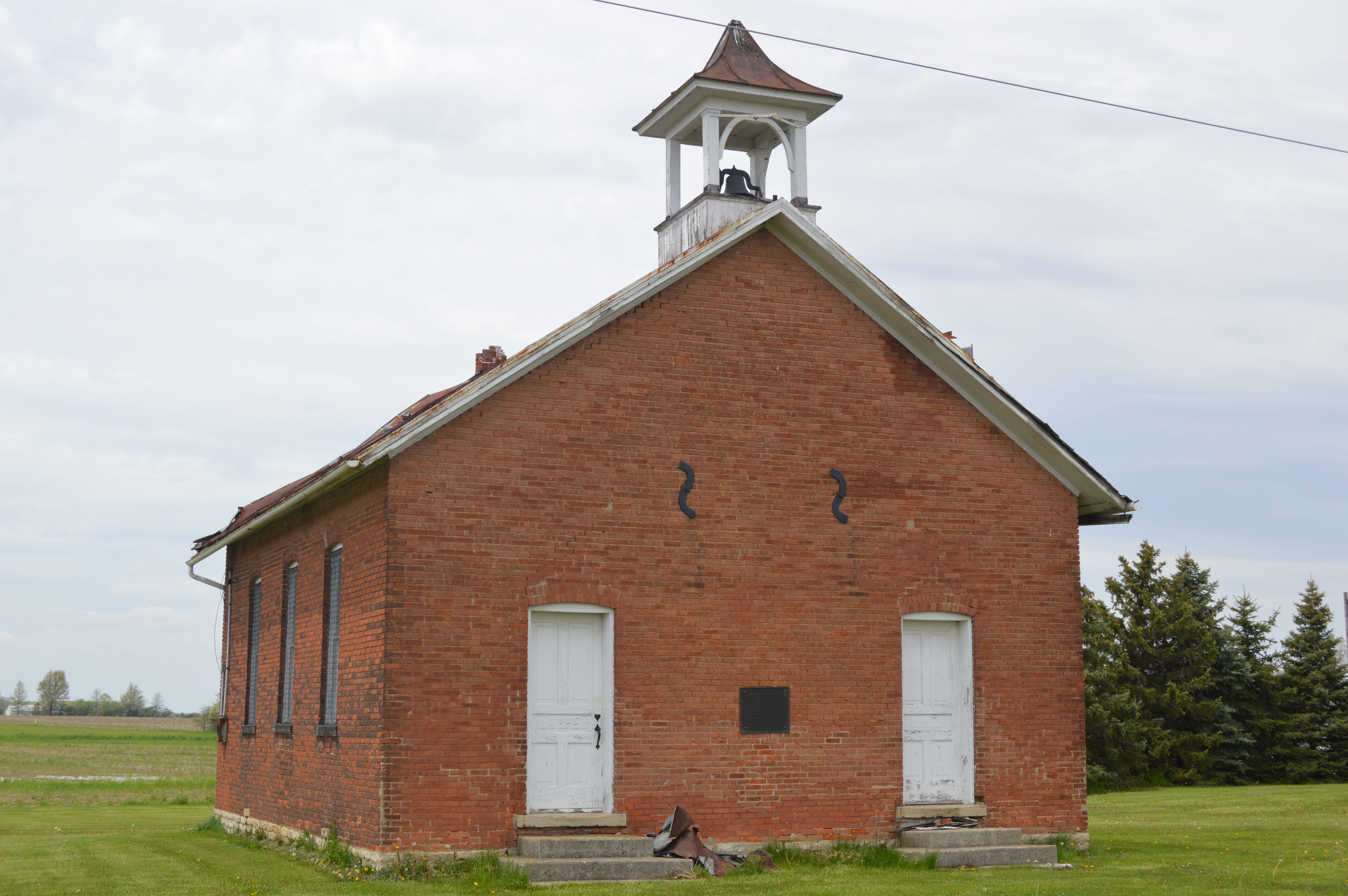 Front and southern side of a former schoolhouse on the western side of State Route 4 at Reedtown in Reed Township, Seneca County, Ohio, United States.